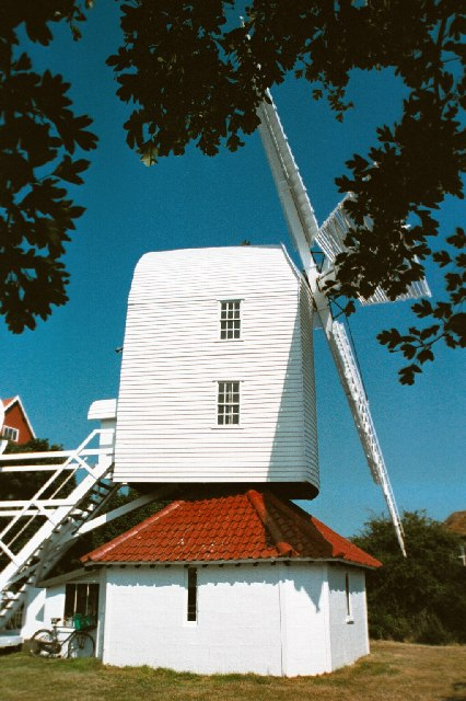 The hollow post mill at Thorpeness, Suffolk. Formerly used to pump water into the water tower known as the House in the Clouds.